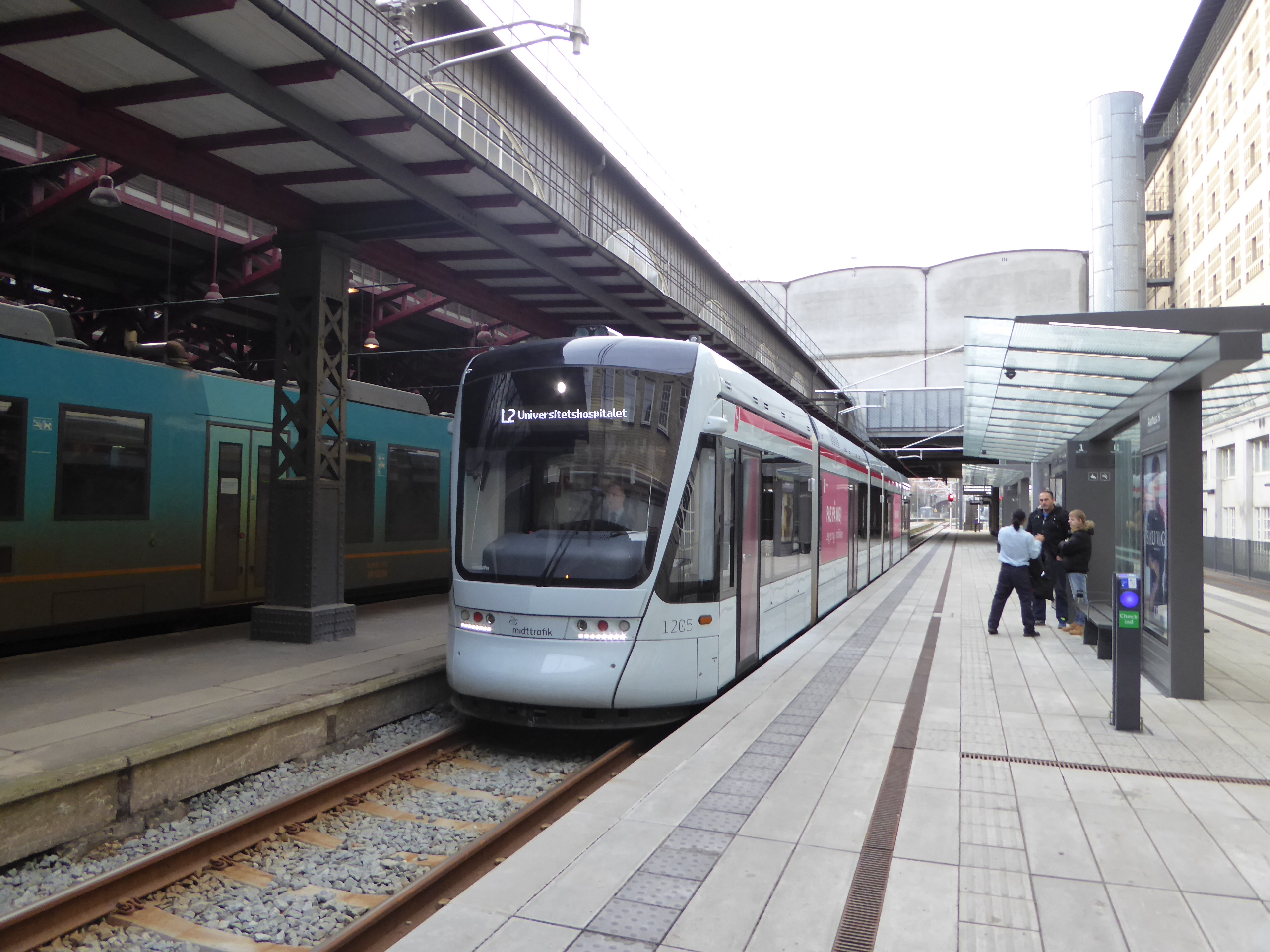 A Stadler Variobahn of Aarhus Letbane at Aarhus Hovedbanegård in Denmark.